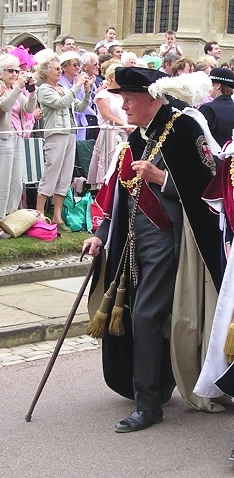 The 8th Duke of Wellington wearing his robes as a Knight Companion of the Order of the Garter, in procession to St George's Chapel, Windsor Castle for the annual service of the Order of the Garter.